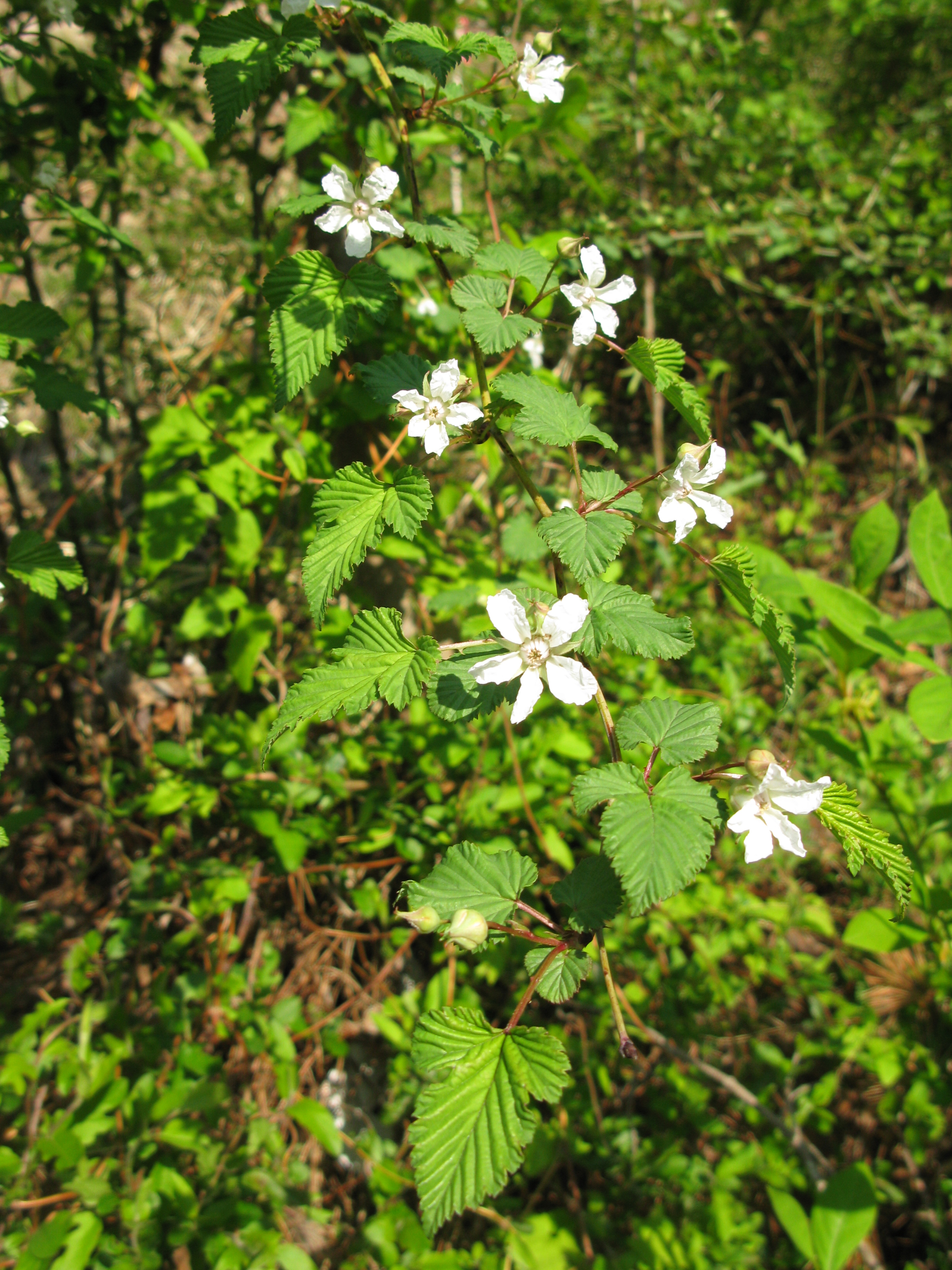 Rubus microphyllus, Aizu area, Fukushima pref., Japan